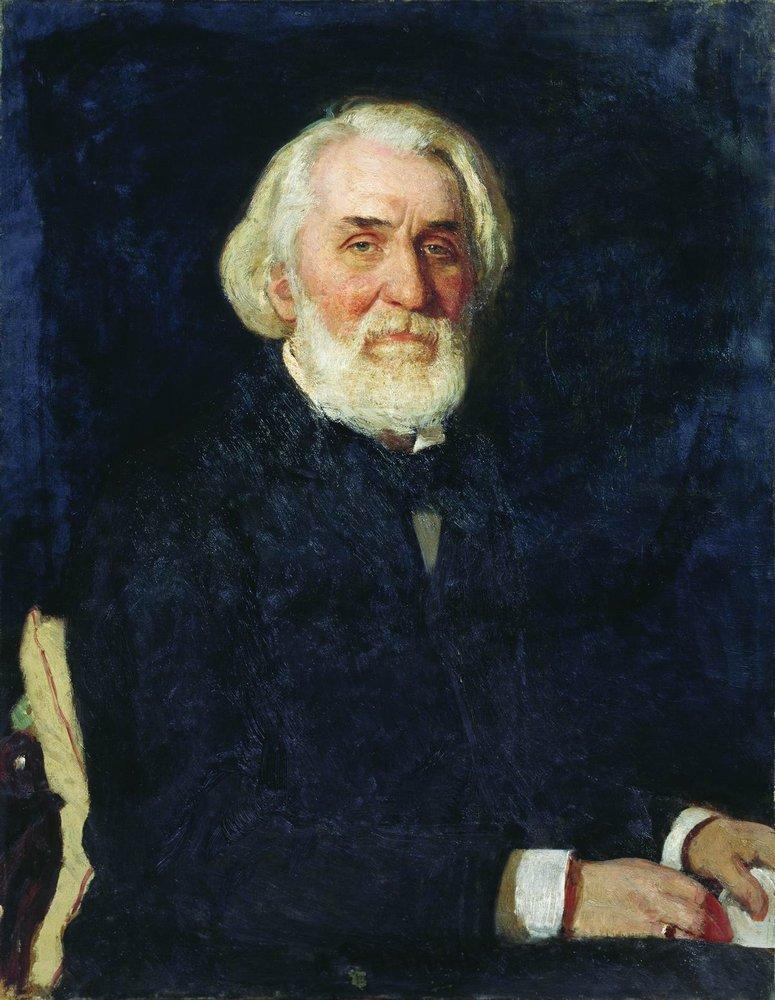 Portrait of writer Ivan Sergeyevich Turgenev